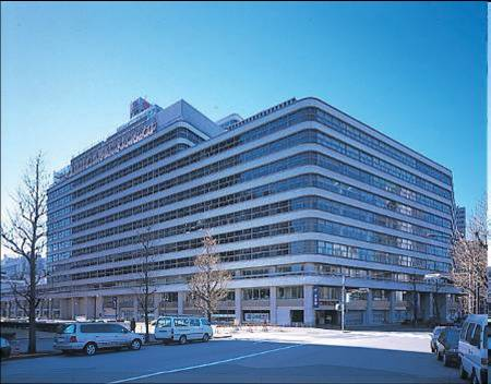 Nippon Building, Chiyoda-ku, Tokyo